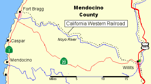 Map of the California Western Railroad 'Skunk Train' route, in Category:Mendocino County, Northwesern California. Source (created using in Mendocino County, California